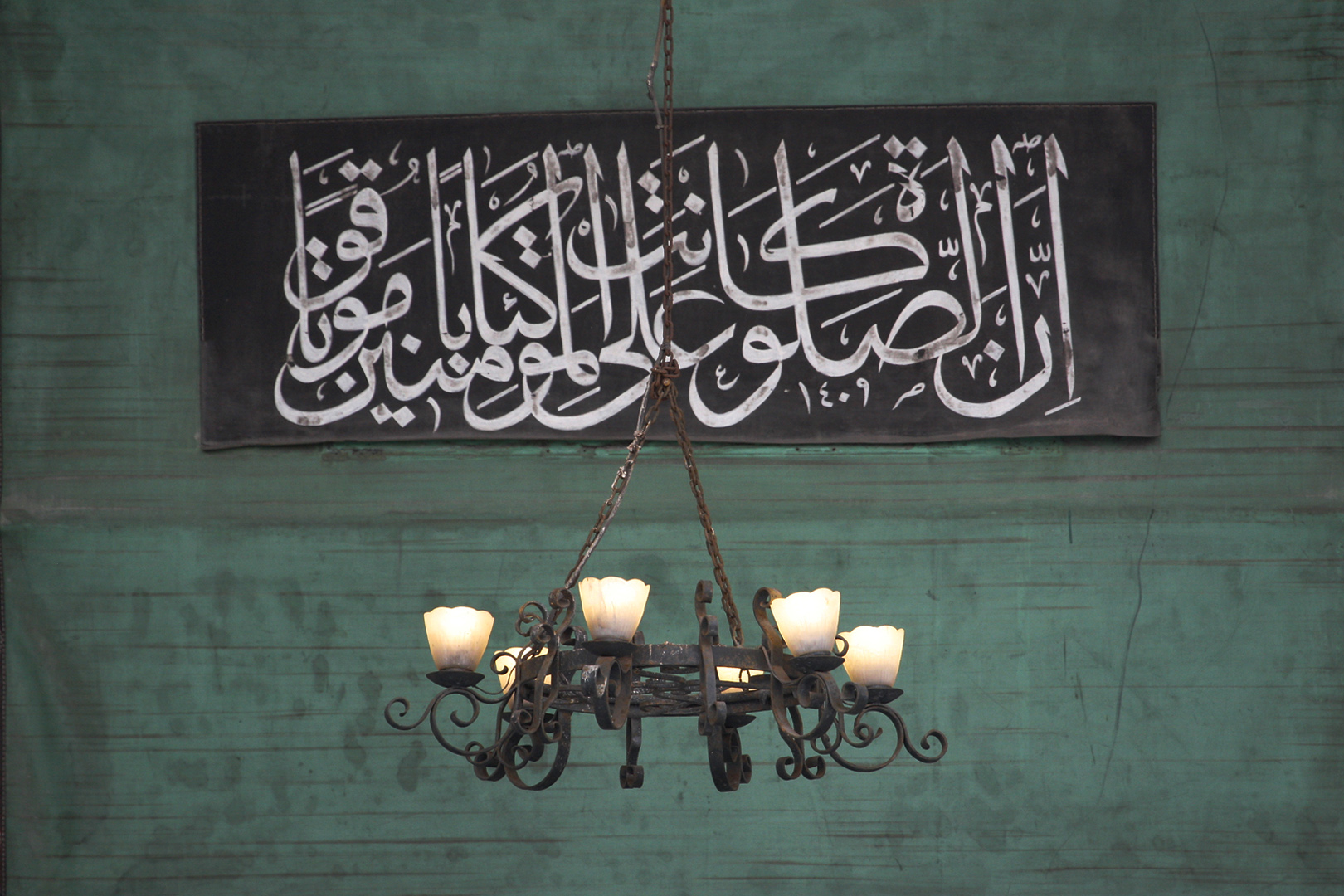 Above the entrance to Istanbul's "new" mosque, built in 1597. It reads, "Prayers were surely written for the believers." In other words, believers are expected to pray.